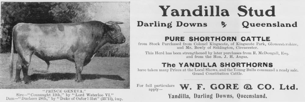 Advertisement for pure bred Shorthorn cattle from Yandilla Stud, Darling Downs, 1906. Caption under photograph reads: Prince Geneva. Sire - Connaught 13th, by Lord Waterloo VI. Dam - Duchess 28th, by Duke of Oxford 31st (33713), imp. Caption beside photograph reads: Yandilla Stud, Darling Downs, Queensland. Pure Shorthorn cattle from stock purchased from Colonel Kingscote, of Kingscote Park, Gloucestershire, and Mr Bowly of Siddington, Cirencester. This herd has been strengthened by later purchases from R. McDougall, Esq. and from the Hon. J. H. Angas. The Yandilla Shorthorns have taken many prizes at the local shows, and the young bulls command a ready sale. Grand Constitution Cattle. For full particulars apply - W. F. Gore & Co. Ltd. Yandilla, Darling Downs, Queensland.